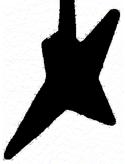 Original graphic to illustrate star (guitar) article